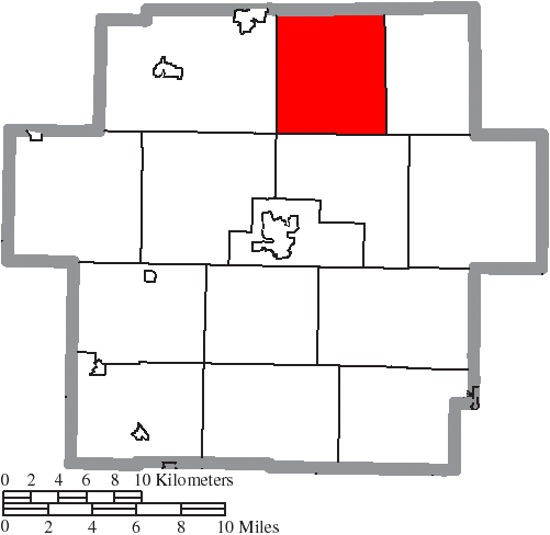 Map of the municipal and township boundaries of Carroll County, Ohio, United States, as of the 2000 census, with the location of Augusta Township highlighted. Township borders are shown only in unincorporated areas in order to differentiate incorporated and unincorporated areas more clearly.